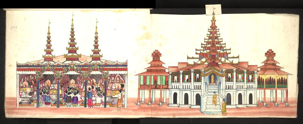 Watercolour painting by an unknown Burmese artist depicting 19th century Burmese life.